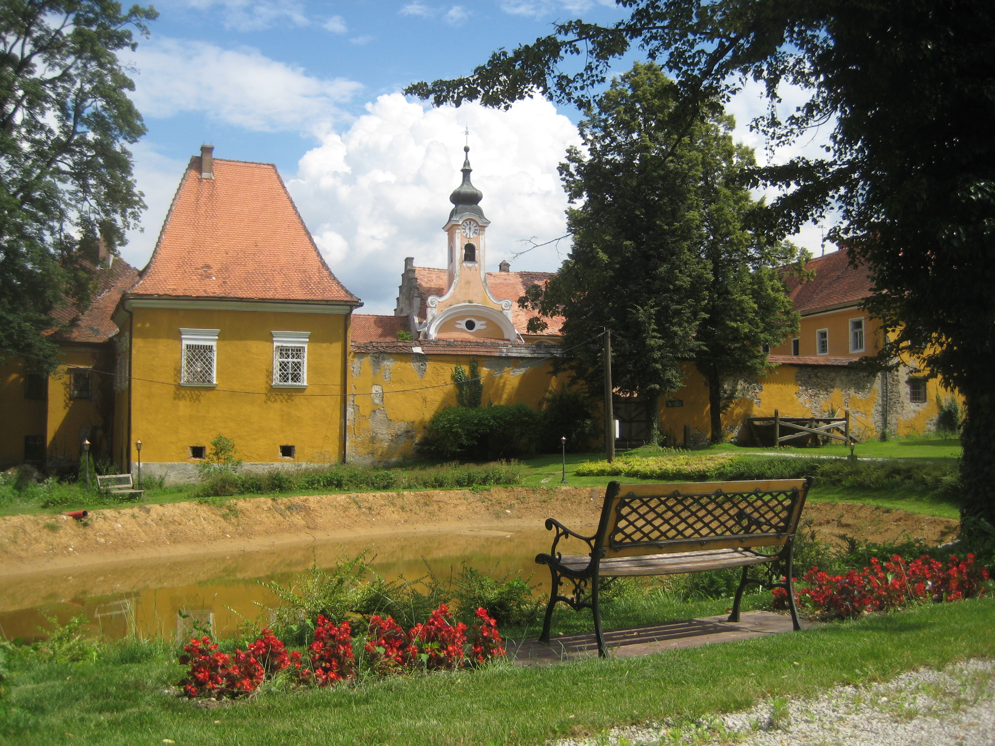 Fala castle. Slovenia.